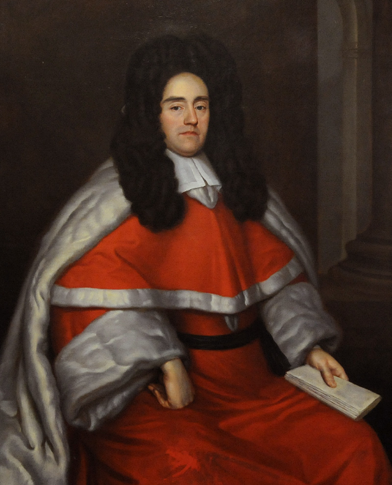 Sir Littleton Powys, owner of Henley Hall, Ludlow